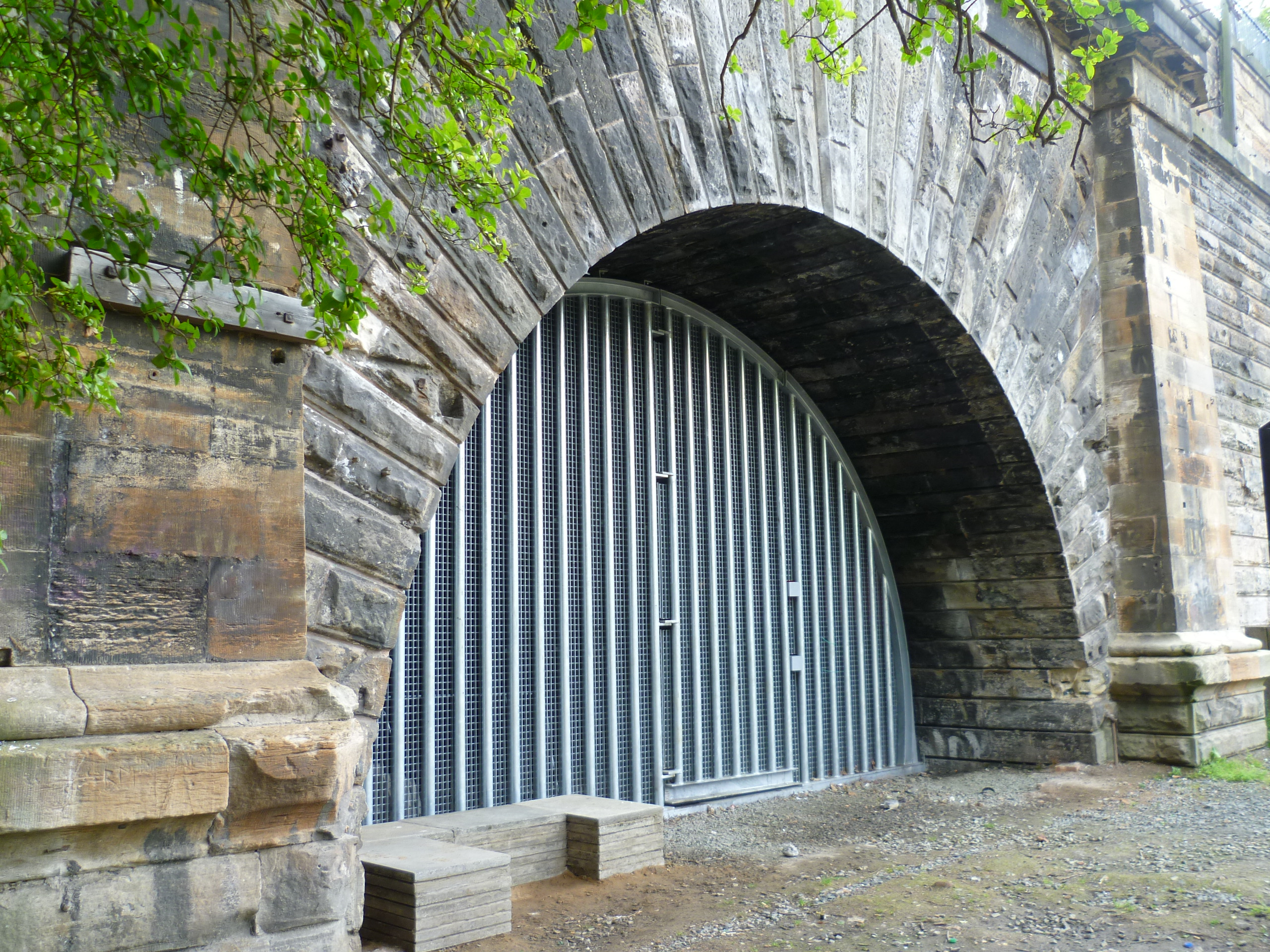 Northern end of the Scotland Street Tunnel, Canonmills Edinburgh